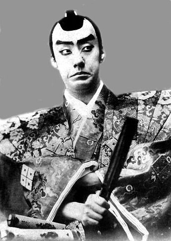 Ganjirō Nakamura I (1860–1935) as Sasaki Takatsuna in Ōmi-Genji Senjin Yakata (Moritsuna Jinya)